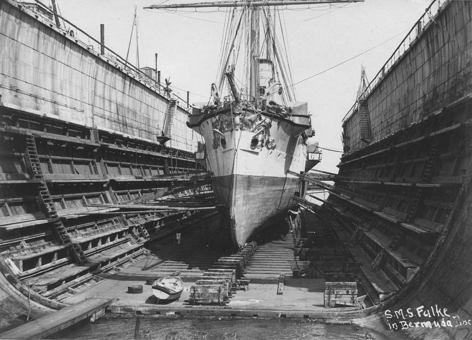 SMS Falke of the Hohenzollern Kaiserliche Marine in the floating drydock Bermuda in the North Yard of the Royal Naval Dockyard on Ireland Island, in the British colony of Bermuda in 1903.